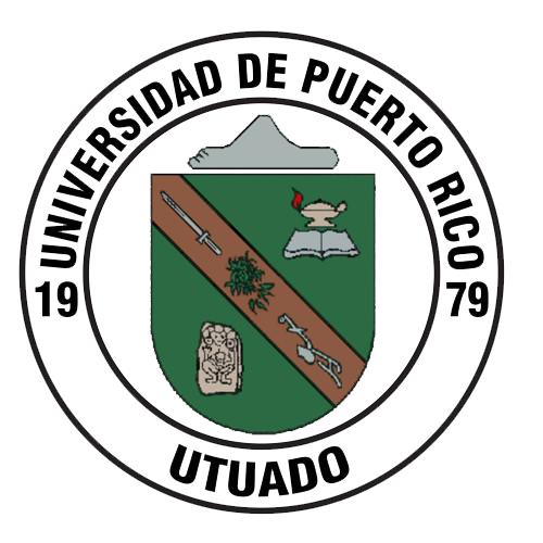 Escudo de la Universidad de Puerto Rico en Utuado